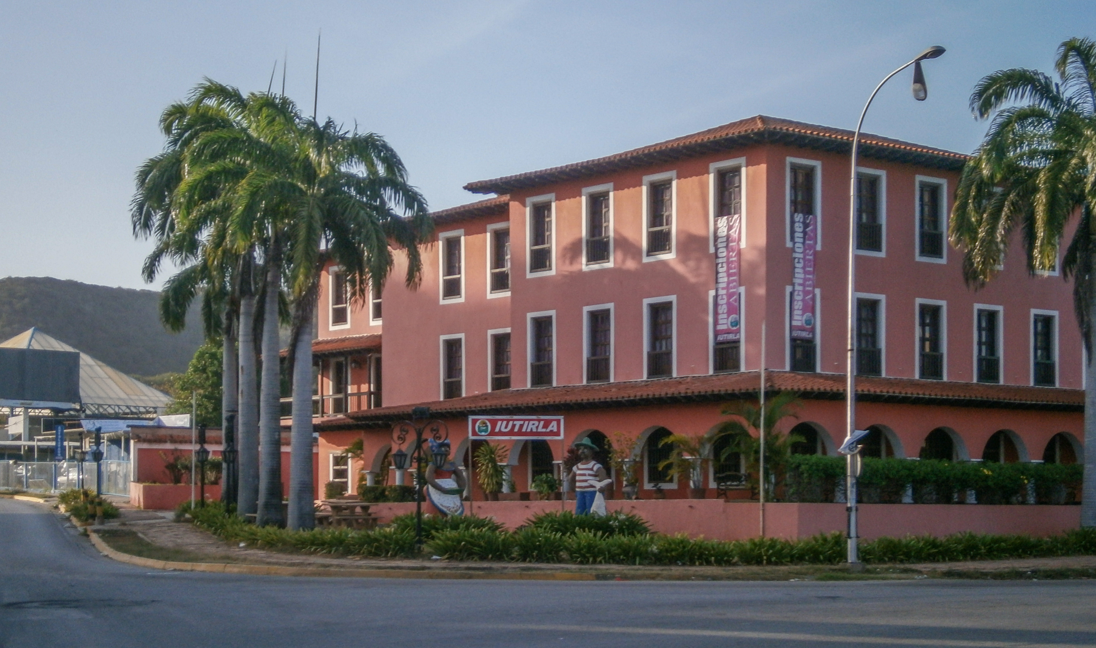 IUTIRLA Porlamar